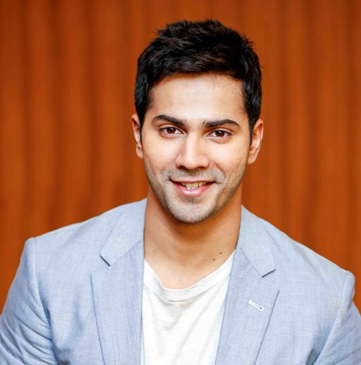 Press conference of 'ABCD - Any Body Can Dance - 2' in Dubai